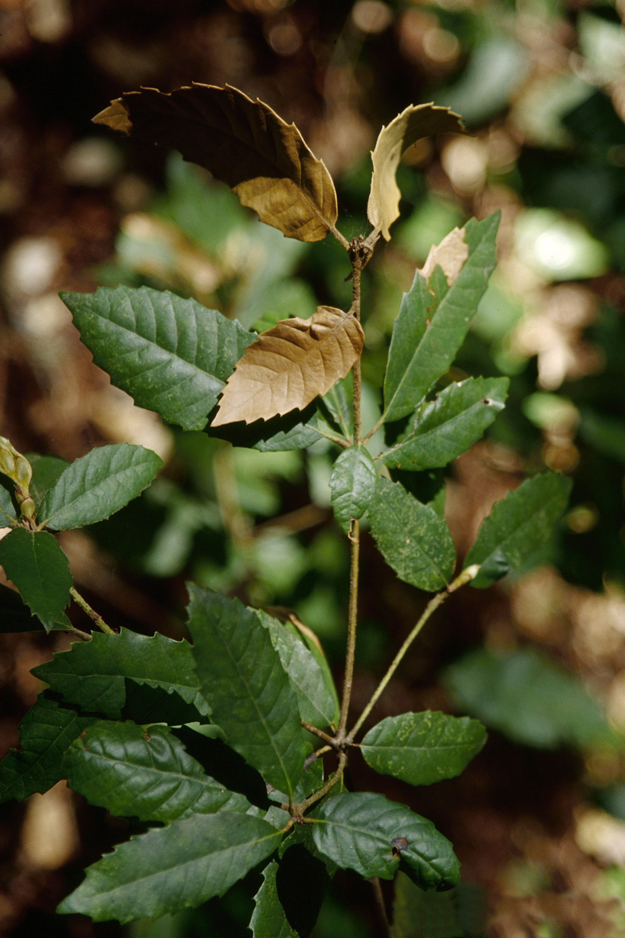 Notholithocarpus densiflorus foliage, with tip death due to Phytophthora ramorum